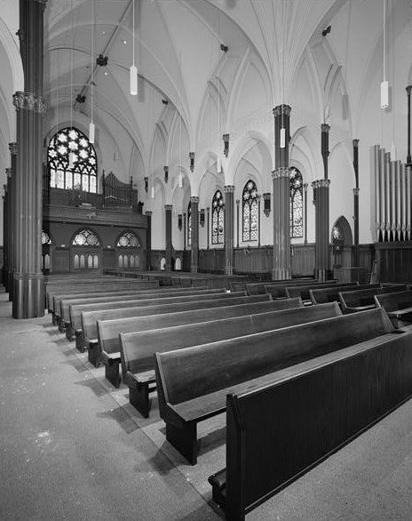 The nave of the former St. Francis de Sales Cathedral in Oakland, California. It served as the cathedral of the Catholic Diocese of Oakland from 1962 until it was damaged in the 1989 Loma Prieta earthquake. It was toen down in 1993.